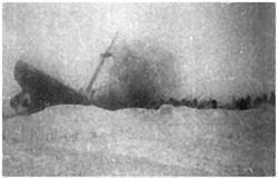 1934 – The Soviet steamship SS Chelyuskin, while attempting to travel through the Northern Sea Route from Murmansk to Vladivostok, became trapped in drift ice and sank (pictured). The members of the subsequent search and rescue team were the first recipients of the Hero of the Soviet Union award.